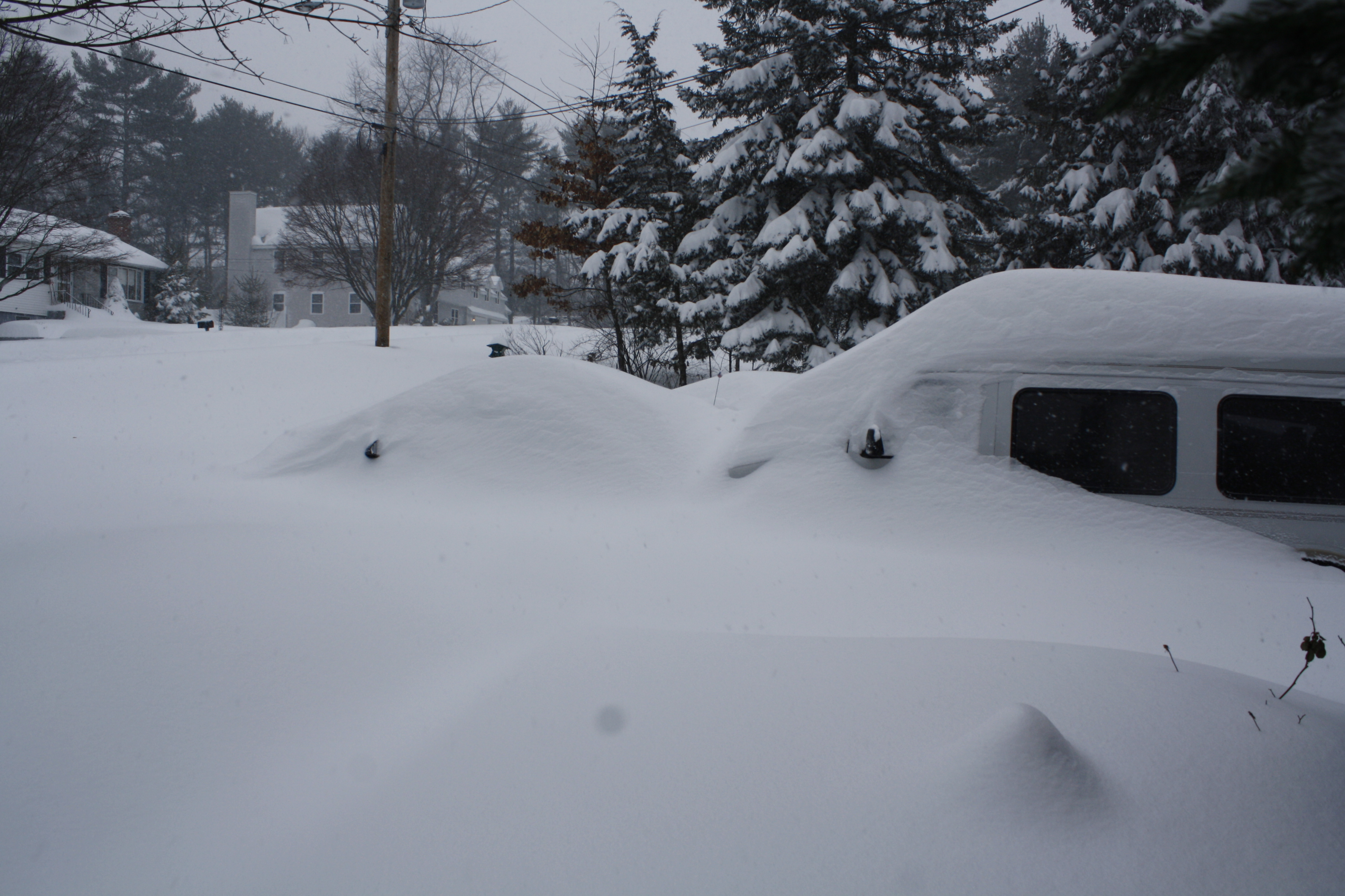 Two vehicles completely buried in snow 8AM Saturday, February 9th, 2013